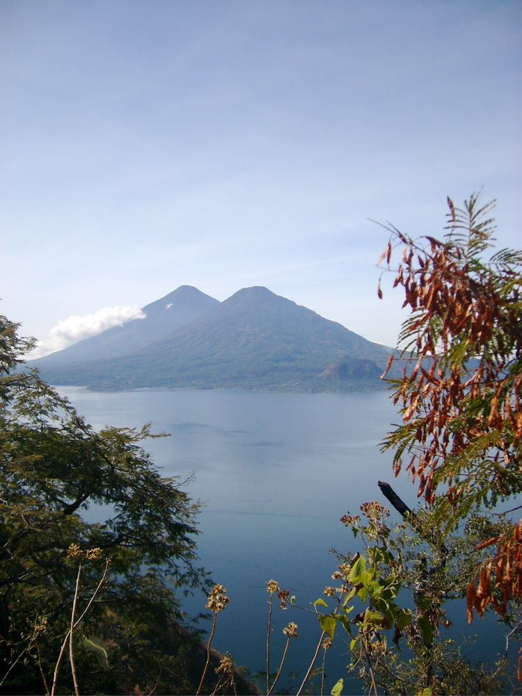 View of the volcanoes Atitlán (back) and Tolimán (front), with the Cerro de Oro lava dome in front of both.